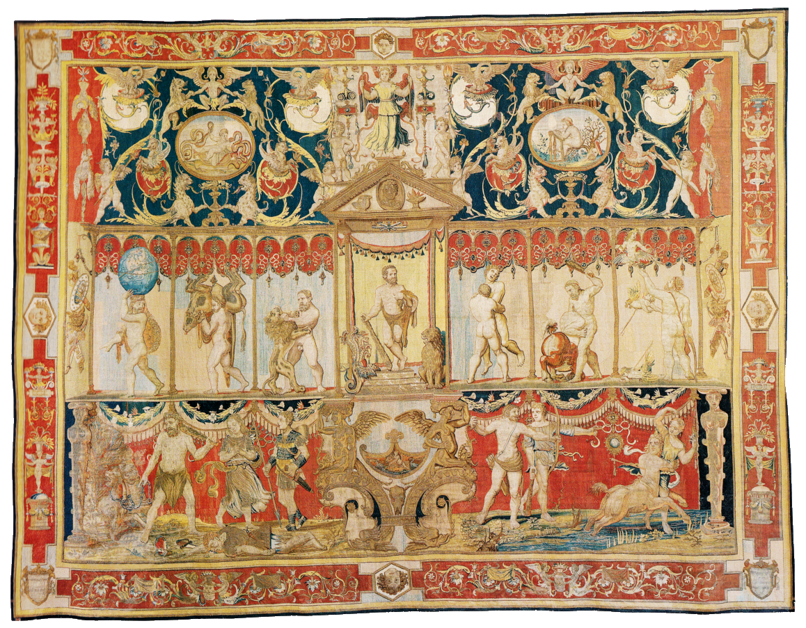 The Triumph of Hercules tapestry, part of a series of Antiques woven for Henry VIII of England in Brussels c. 1540-42, after designs attributed to Giovanni Franceso Penni and Giovanni da Udine, workshop of Rafael, c. 1517-20.